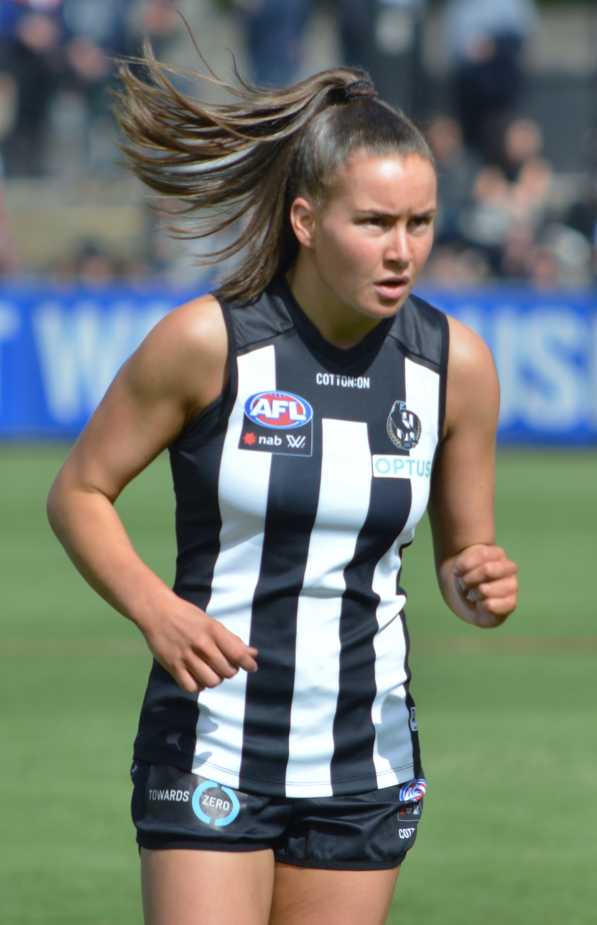 Sarah Dargan with Collingwood during a match against Melbourne at Victoria Park in round 2 of the 2019 AFL Women's season.